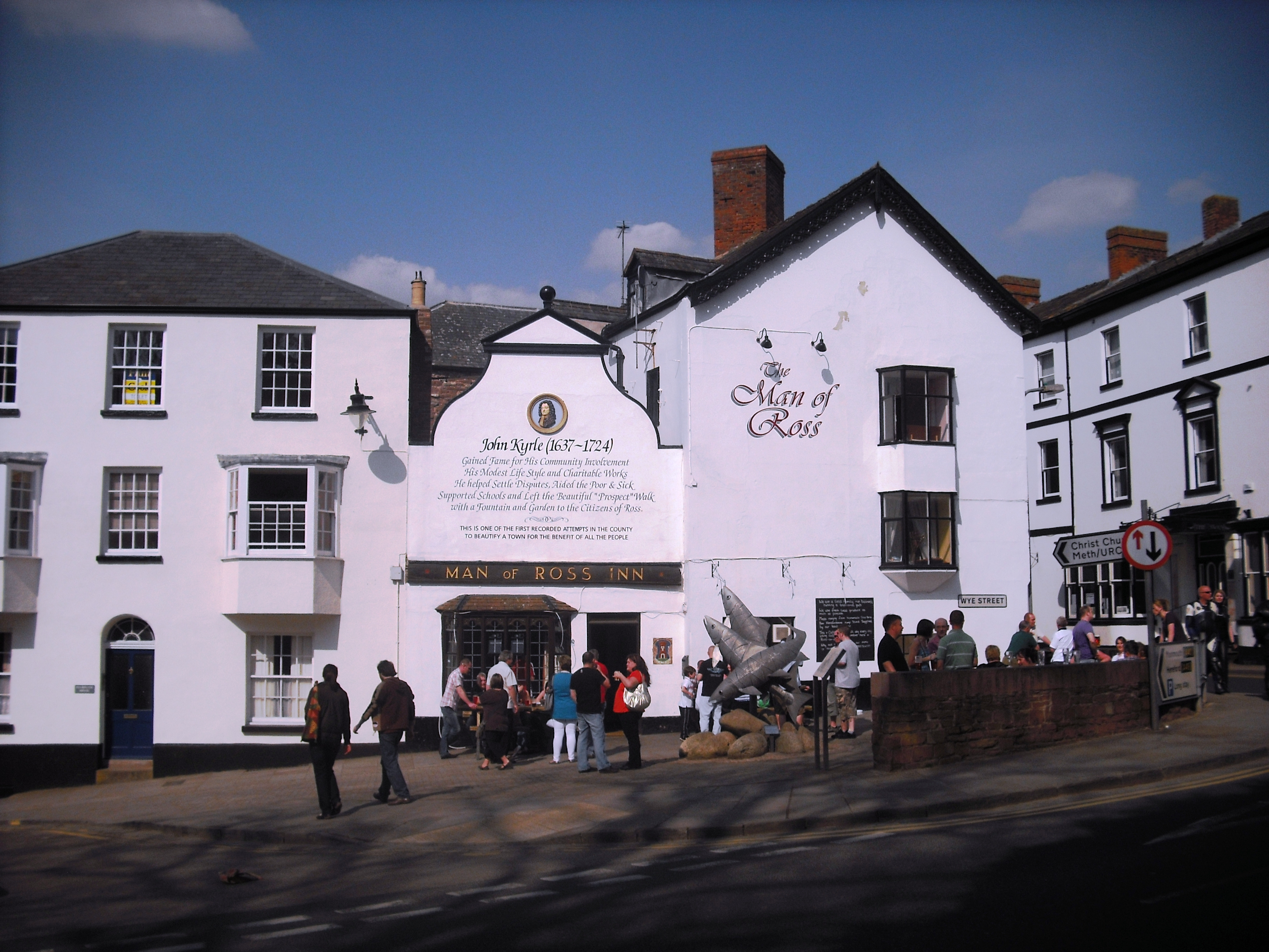 The Man of Ross Inn, Ross-on-Wye